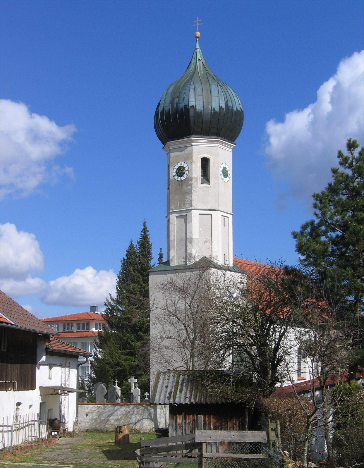 Baierbrunn, Subsidiary Church of St Mary Patroness of Bavaria from south-west.